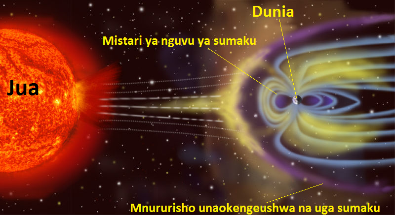 magnetosphere shielding earth from solar wind (Swahilized version of Magnetosphere rendition.jpg)